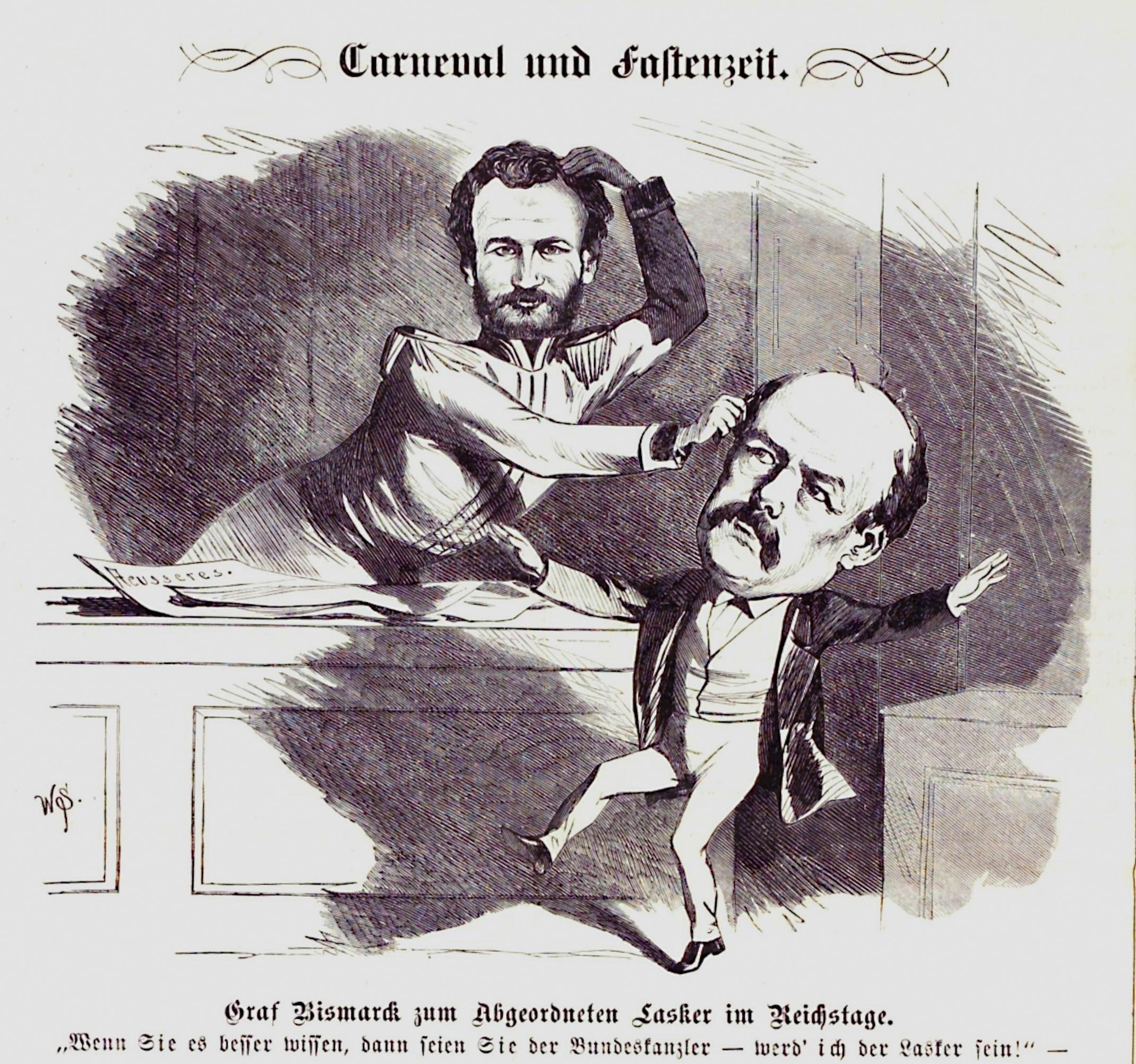 caricature, Kladderadatsch